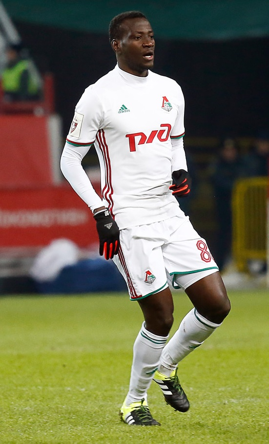 Delvin N'Dinga with FC Lokomotiv Moscow in a game against FC Ural Yekaterinburg.